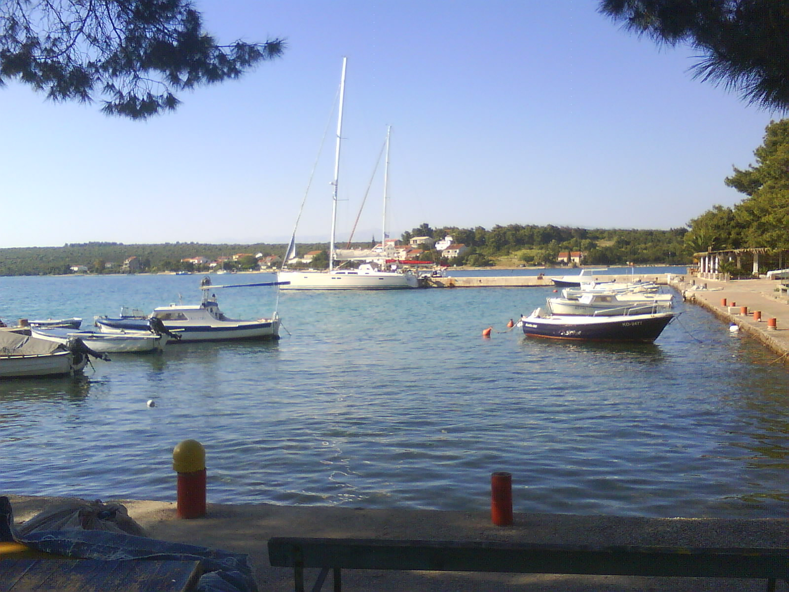 Village Lovište ,municipality of Orebić